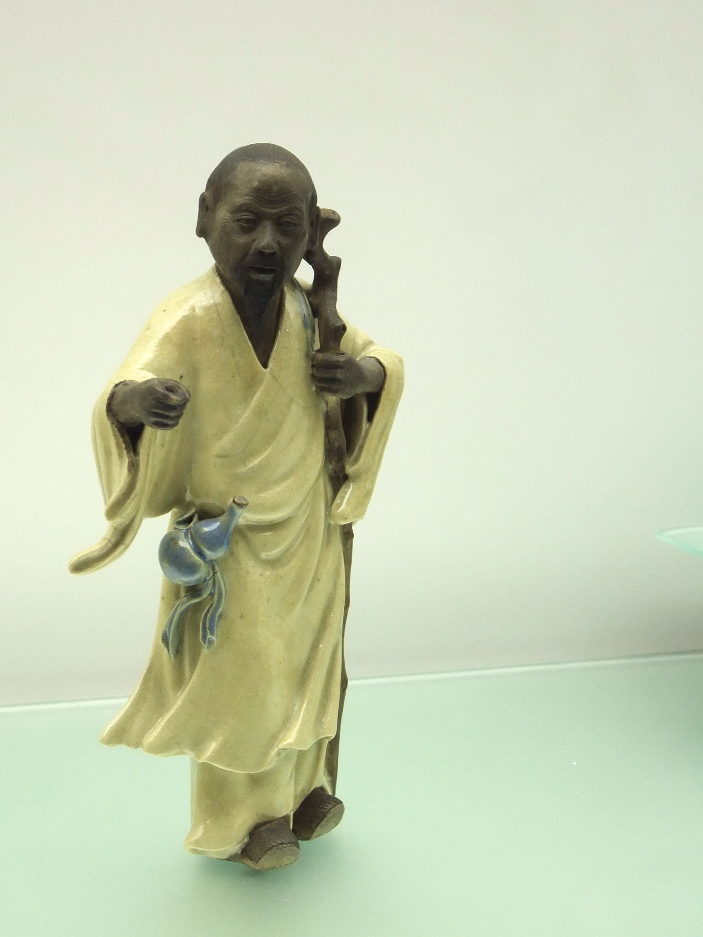 Hua Tuo figure, the medical master of China, on display at the Hong Kong Museum of Art.